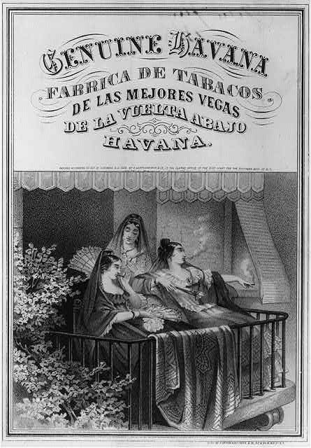 Advertisement for cigars from Havana. Lithograph, 1868 Description from TITLE: Genuine Havana CALL NUMBER: LOT 10618-71 [item] [P&P] REPRODUCTION NUMBER: LC-USZ62-78340 (b&w film copy neg.) No known restrictions on reproduction. SUMMARY: Three Cuban beauties sitting on a balcony smoking Havana cigars. Romantic genre scene. MEDIUM: 1 print : lithograph. CREATED/PUBLISHED: 1868. NOTES: LOT subdivision subject: Smoking (men, women, children in the act of) - Children, Women. Crayon lithograph by F. Heppenheimer & Co. REPOSITORY: Library of Congress Prints and Photographs Division Washington, D.C. 20540 USA DIGITAL ID: (b&w film copy neg.) cph 3b25437 CARD #: 2001697780